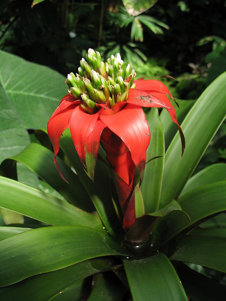 Guzmania eduardii in cultivation at the Botanical Garden of Heidelberg, Germany.